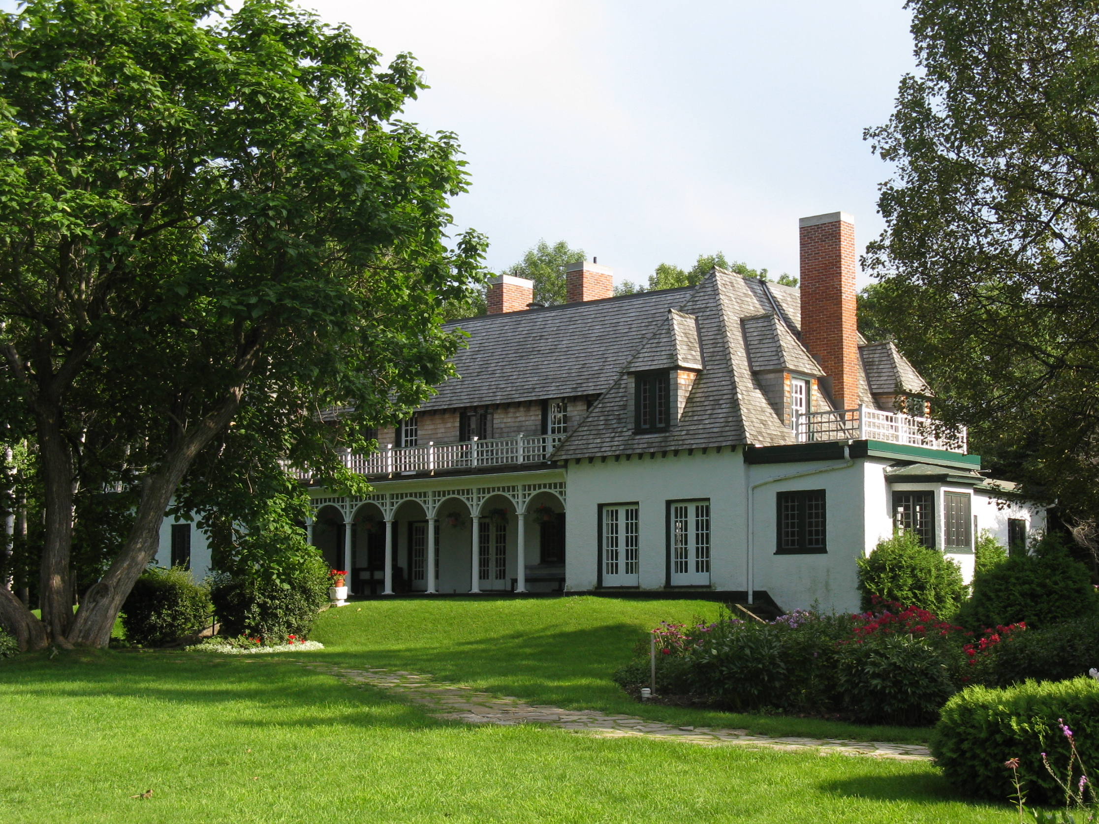 The Stephen Leacock House located at 50 Museum Drive in Orillia, Ontario, Canada. Was Leacock's summer cottage on Lake Couchiching (near Lake Simcoe) designed by architect Kenneth Noxon. It is now a museum and National Historic Site (designated in 1992).